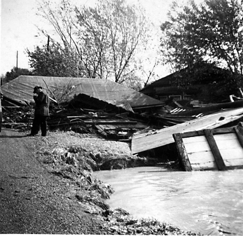 Another view of the debris of broken houses, showing the power of the Humber River during Hurricane Hazel.